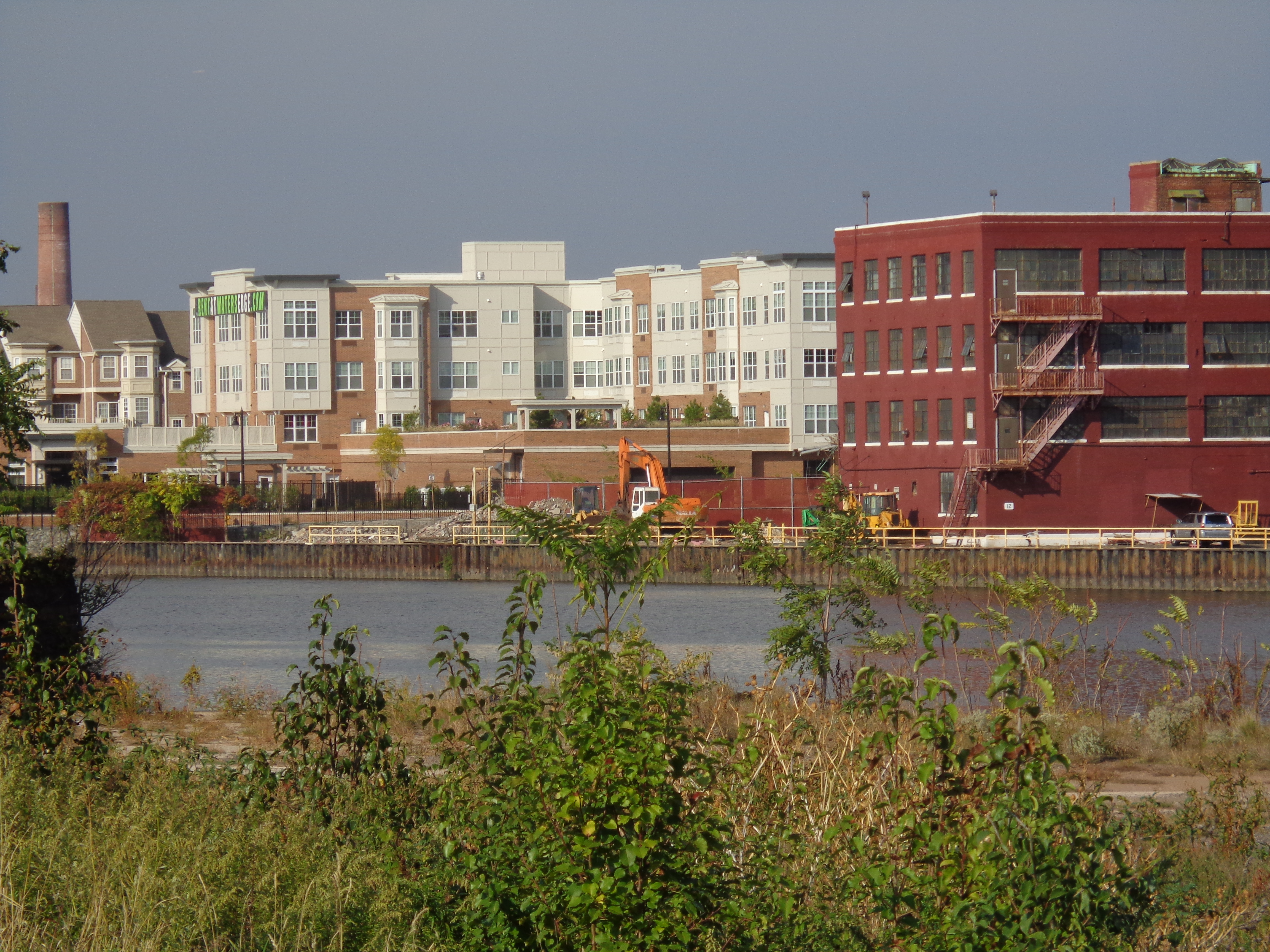 Harrison Passaic Riverbend opposite Newark